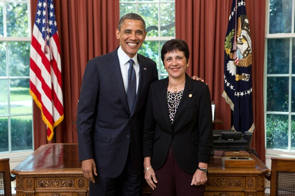 President Barack Obama participated in an ambassador credentialing ceremony with her Excellency Marie-Louise Cecile Potter, Ambassador of the Republic of Seychelles, in the Oval Office.